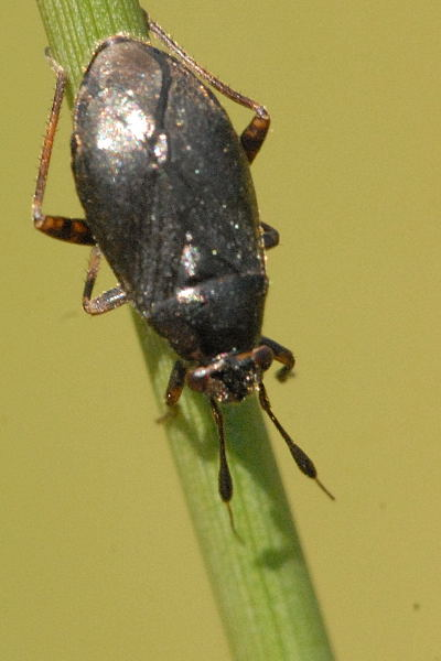 Orthocephalus brevis from Commanster, Belgian High Ardennes .